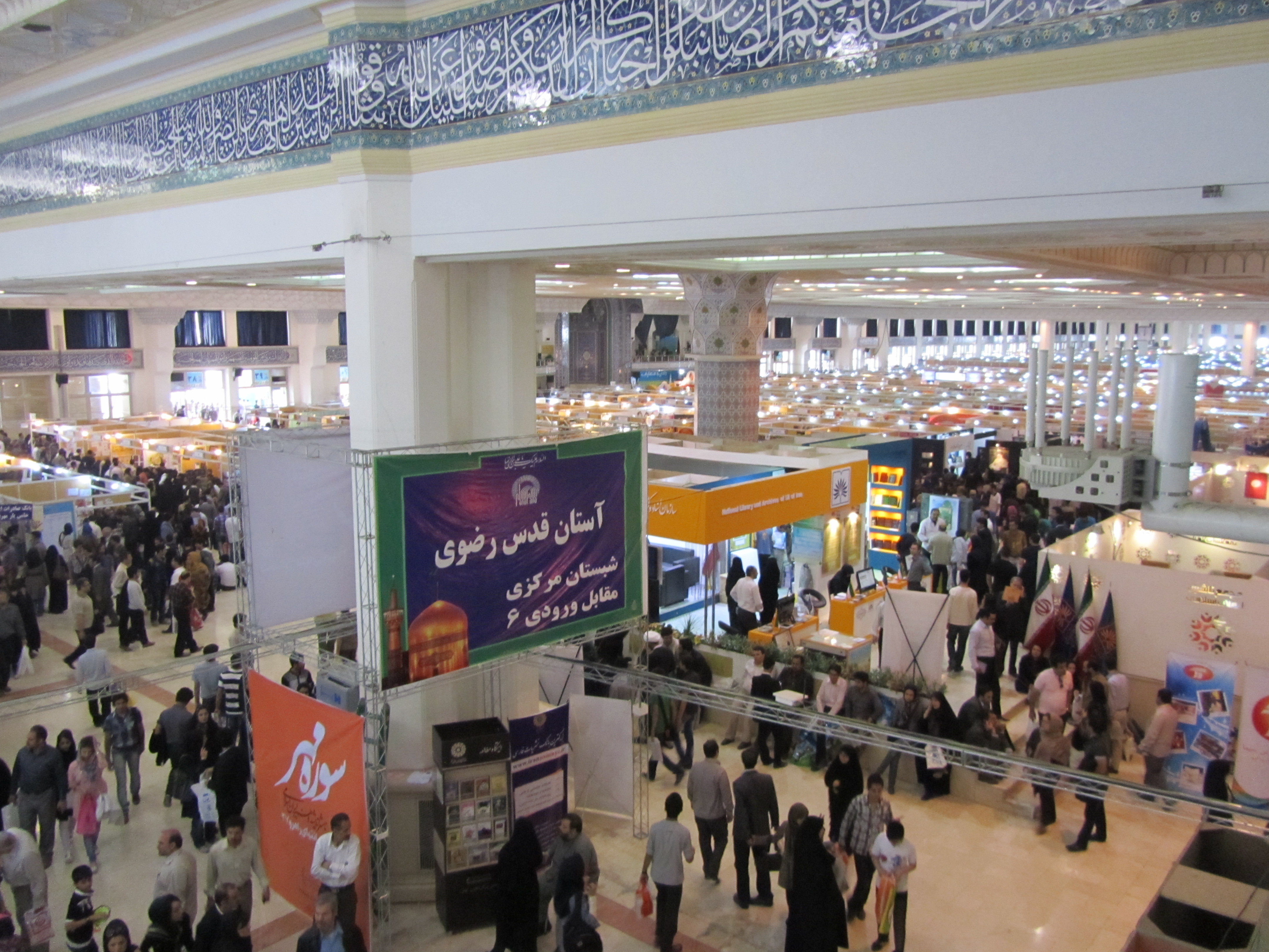 Tehran International Book Fair (TIBF)